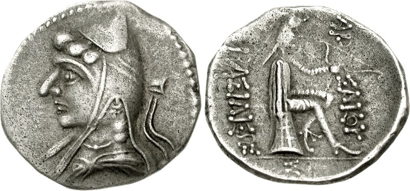 Coin of Phriapatius, a Parthian king.